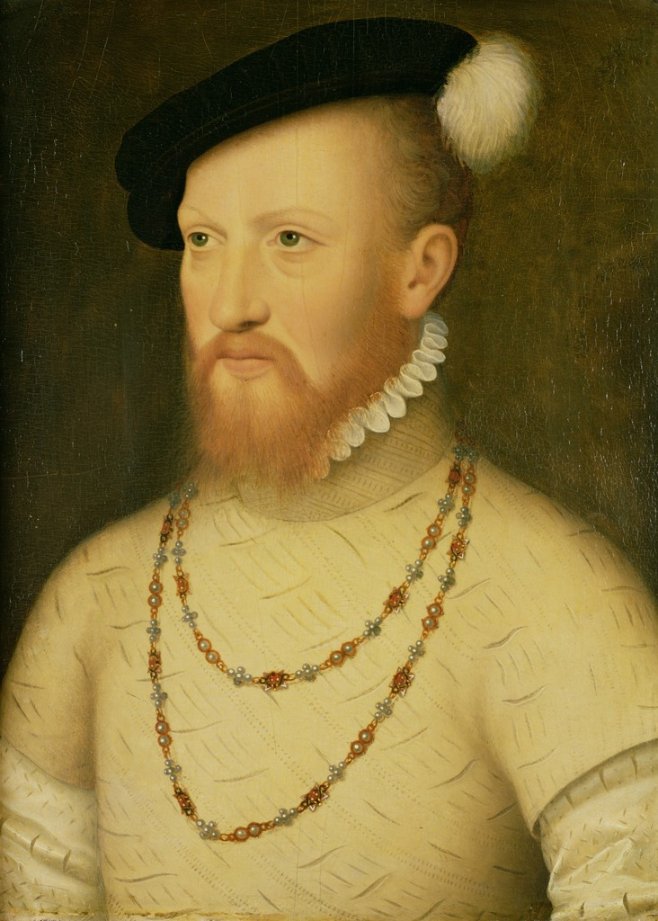 Portrait of Edward Seymour, Earl of Hertford and 1st Duke of Somerset, c. 1500 – executed 1552, located at Weston Park, Trustees of the Weston Park Foundation, Brother of Jane Seymour, uncle to Edward VI. Lord Protector in Edward's reign until he fell from favor and was executed.